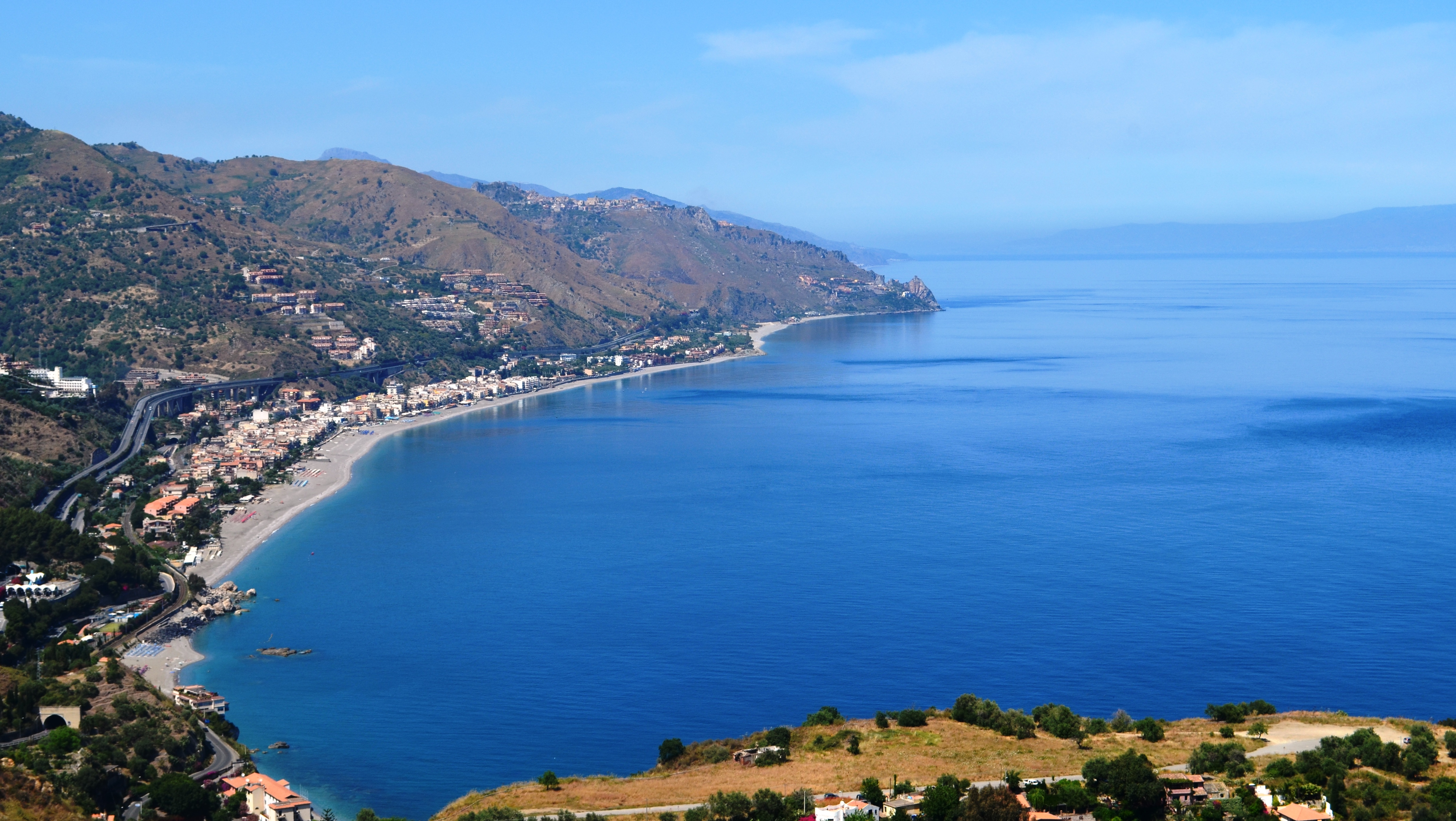 Letojanni, Sicily